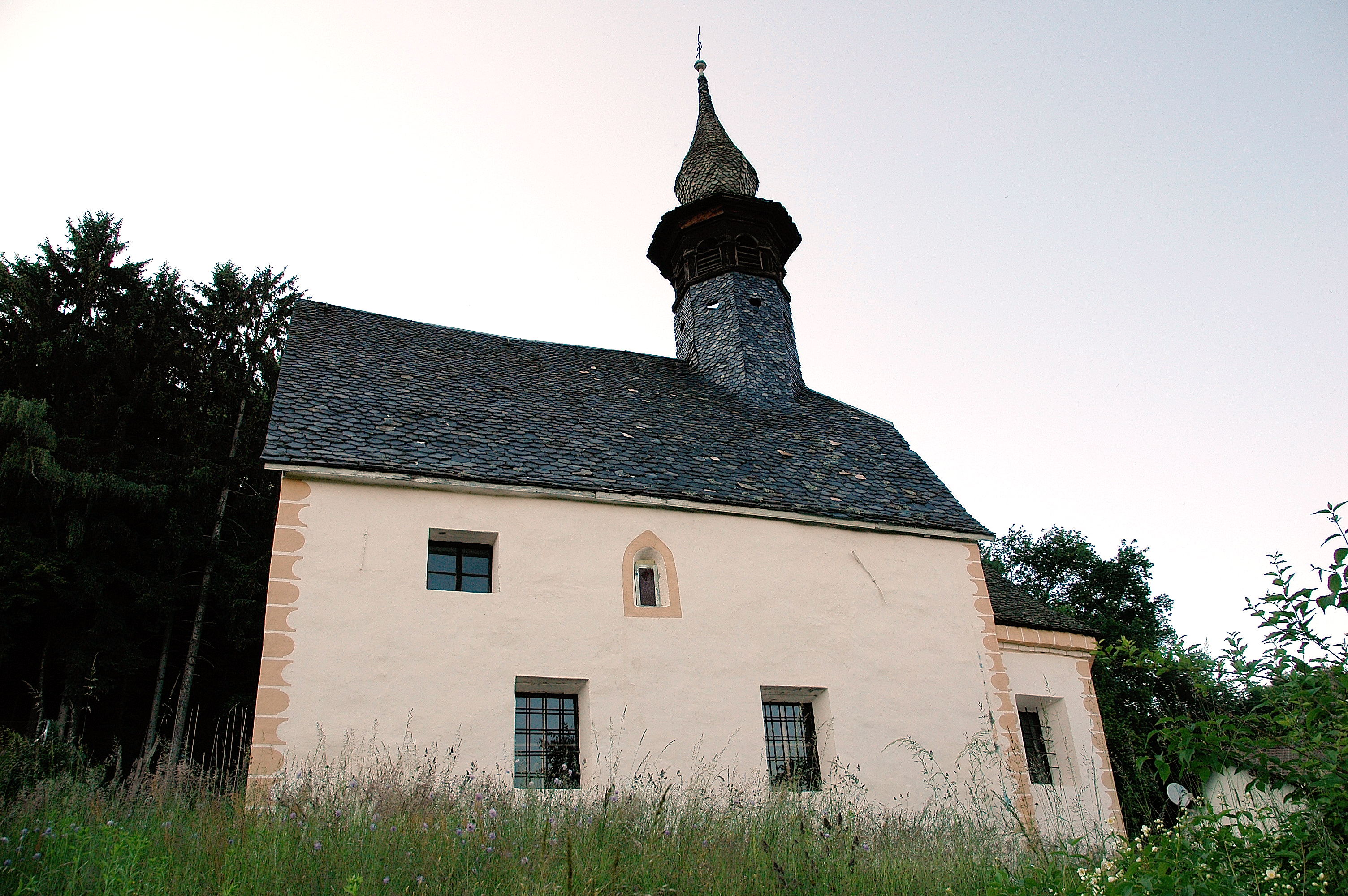 Subsidiary church at Nussberg, in the municipality Moosburg, district Klagenfurt Land, Carinthia, Austria